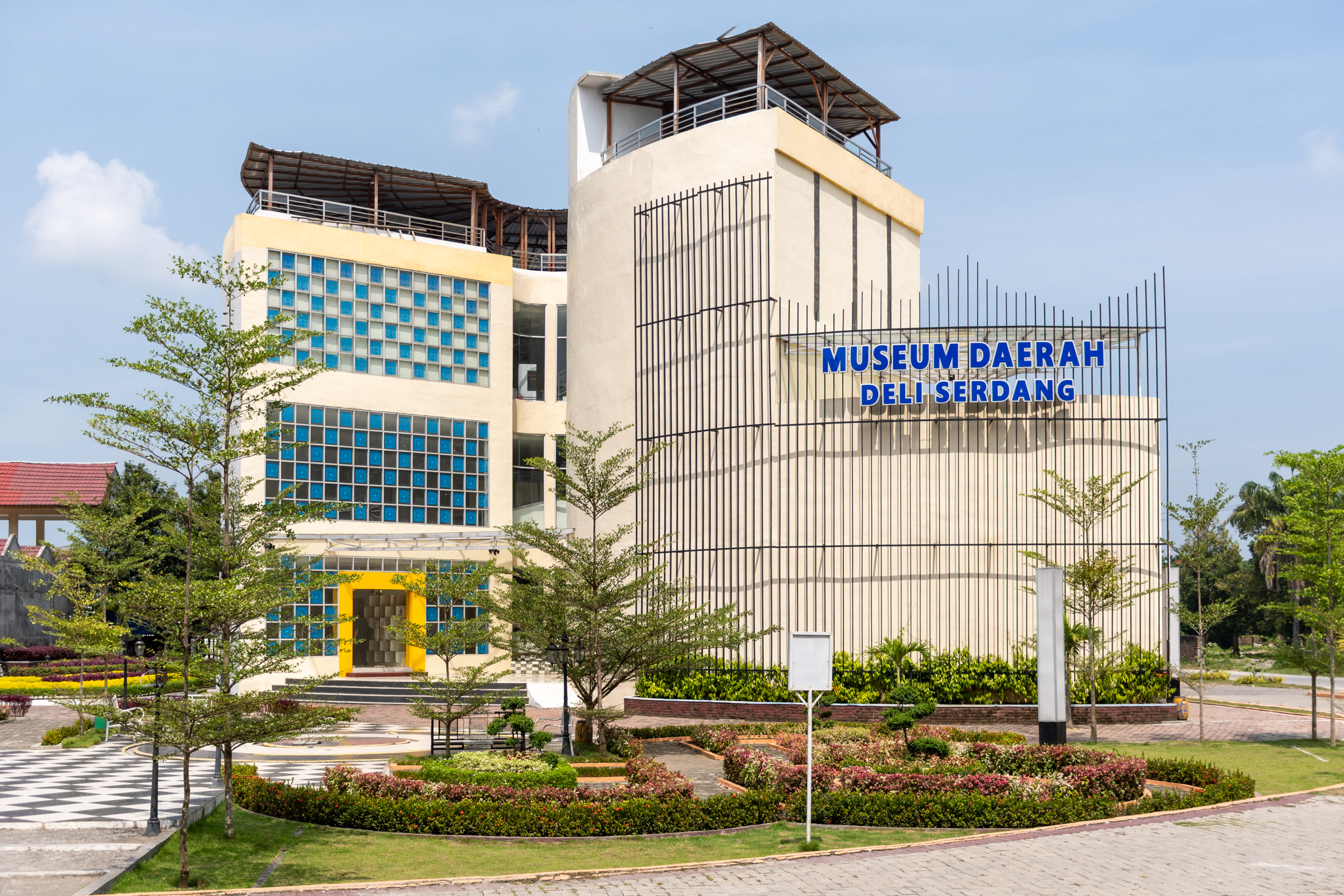 Museum of Deli Serdang site visit by GLAM Indonesia team of Wikimedia Indonesia.